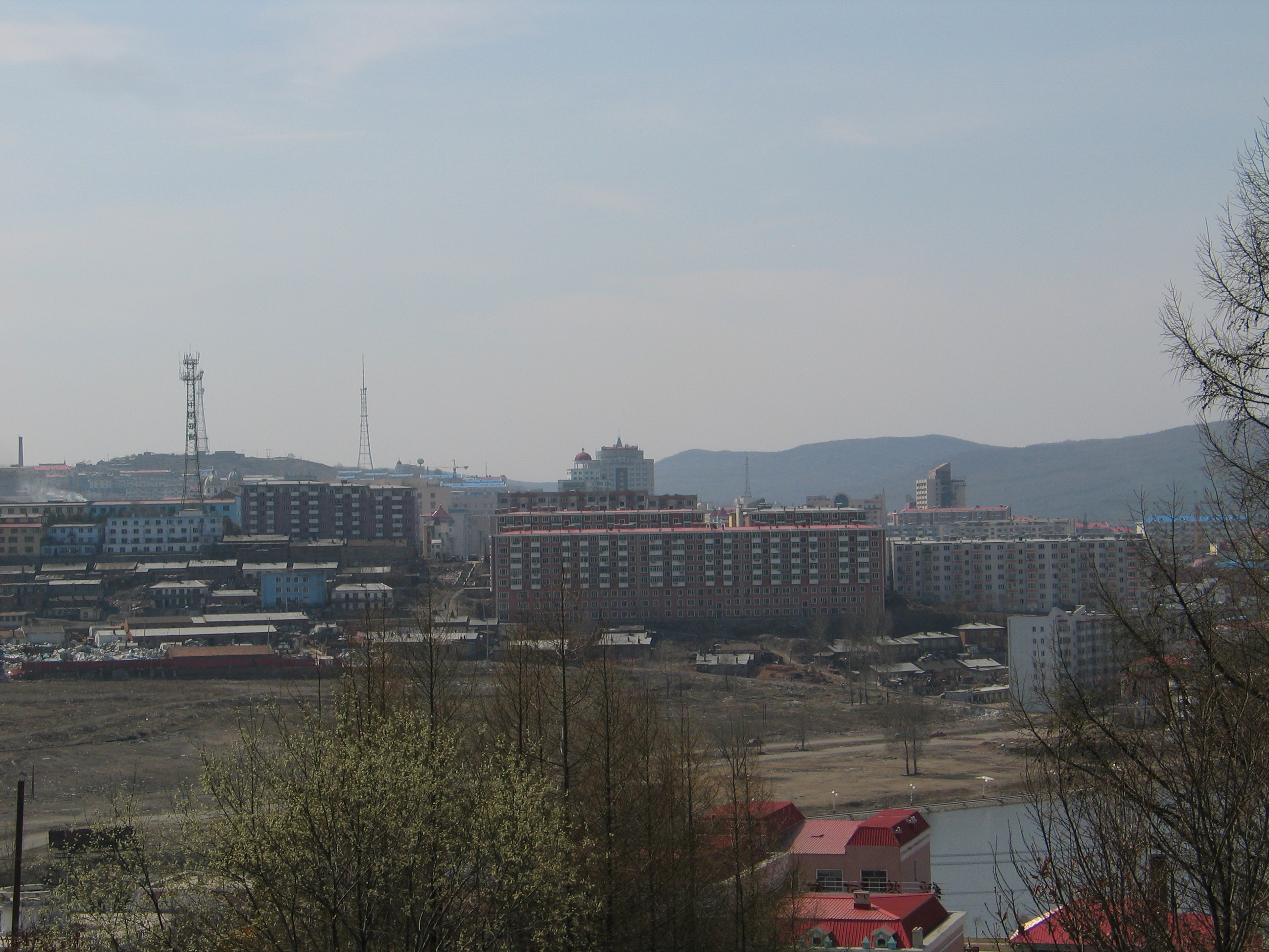 Panorama City suifenhe (China)